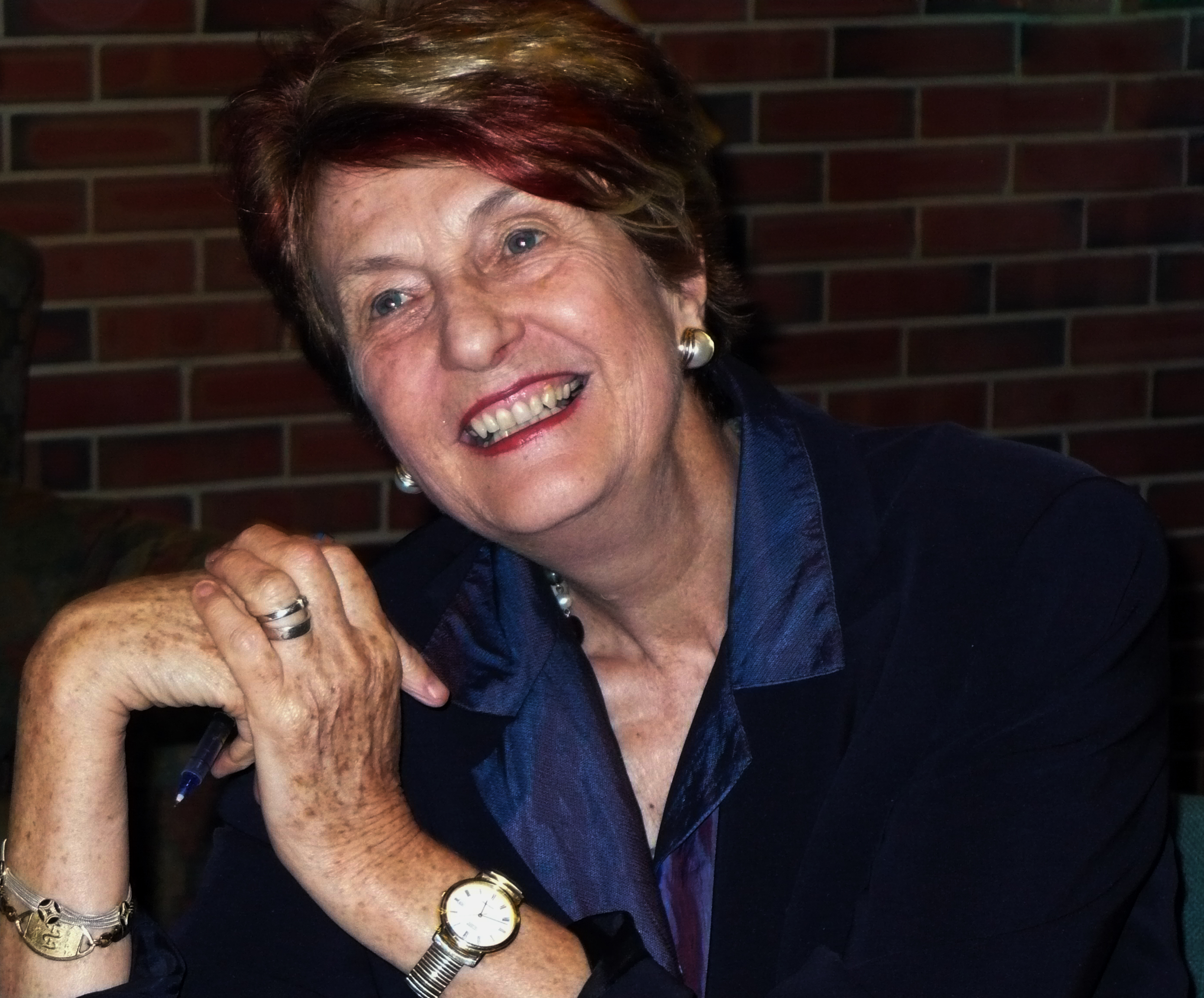 Helen Caldicott in 2007.